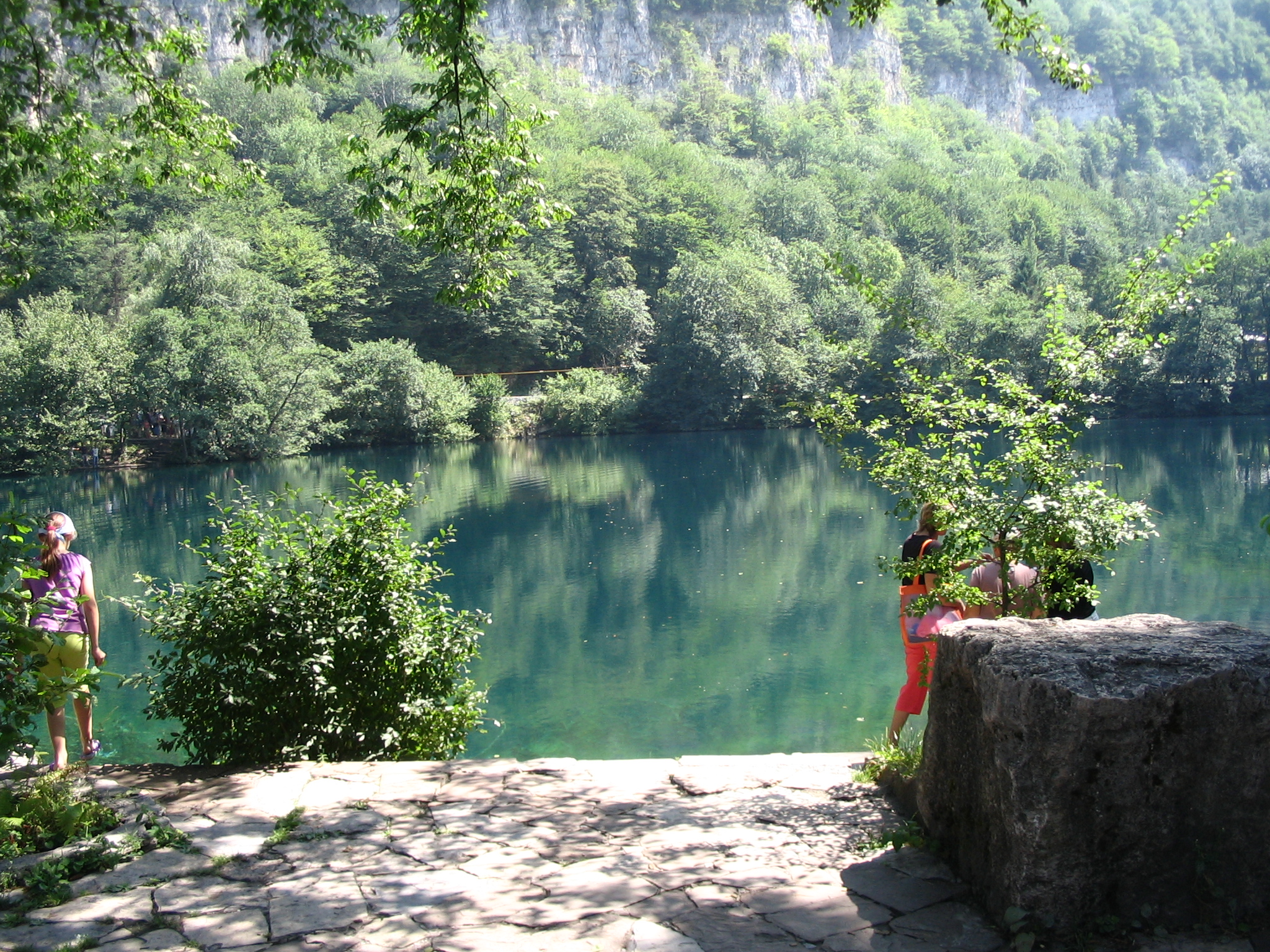 Nalchik.